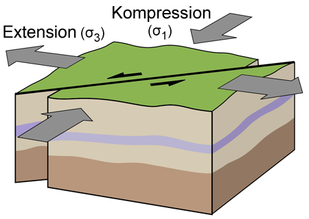 Diagrammatic depiction of a strike-slip fault. The grey arrows indicate the main stress vectors, the black half-arrows indicate the movement along the fault plane.